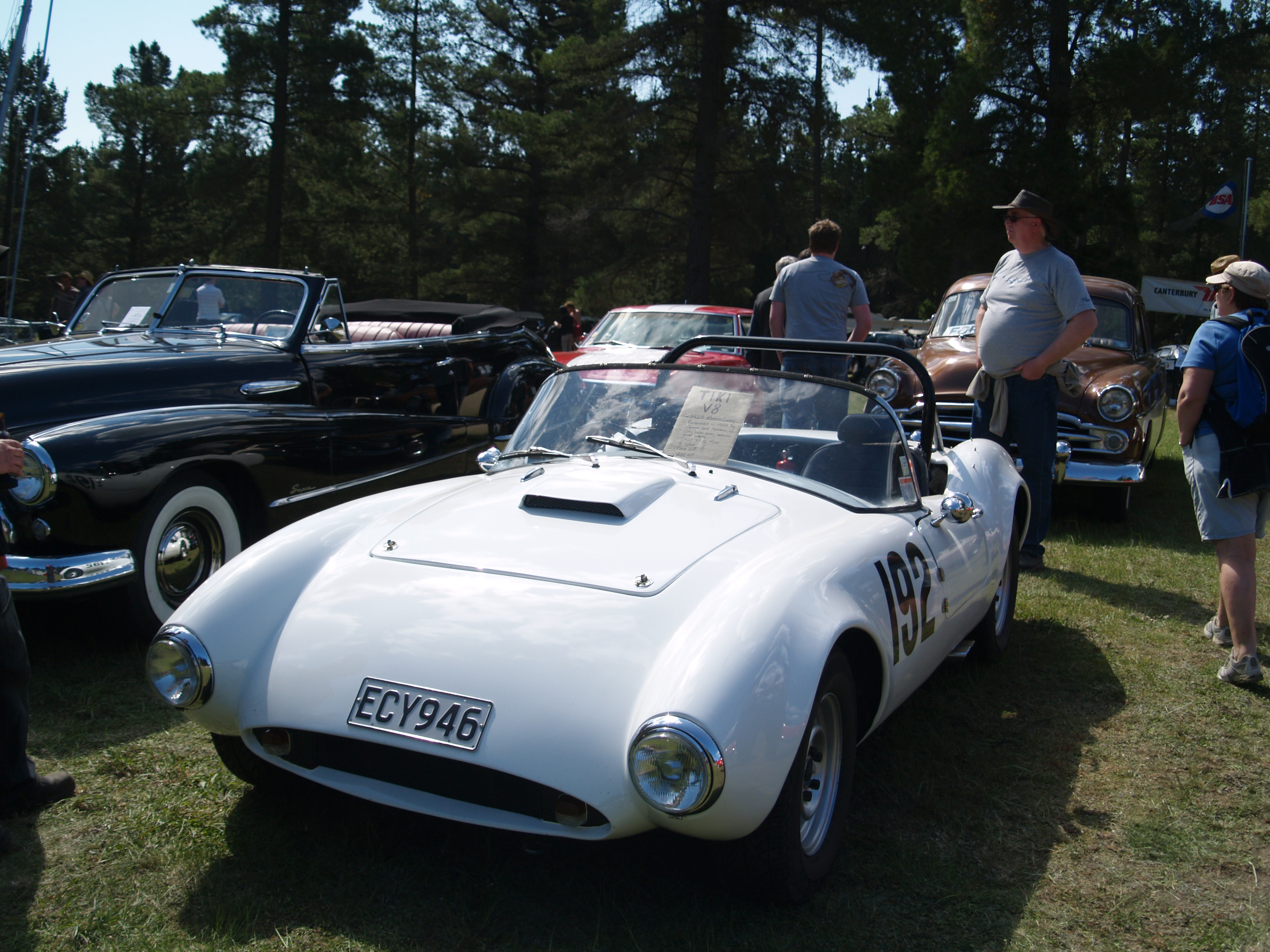 Car registered as a Morris Tiki which could relate to the chassis and body shell. Possibly a body shell by George and Ashton Limited of Dunedin.